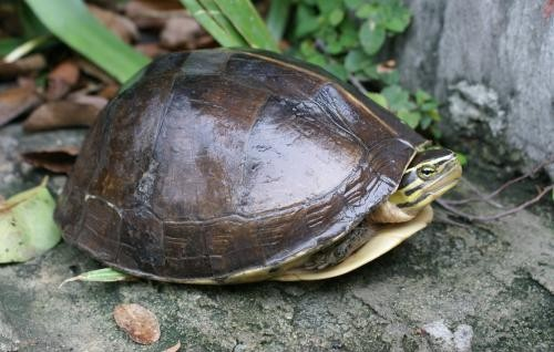 Description: Cuora amboinensis lineata Author: Torsten Blanck (User:Cuora)